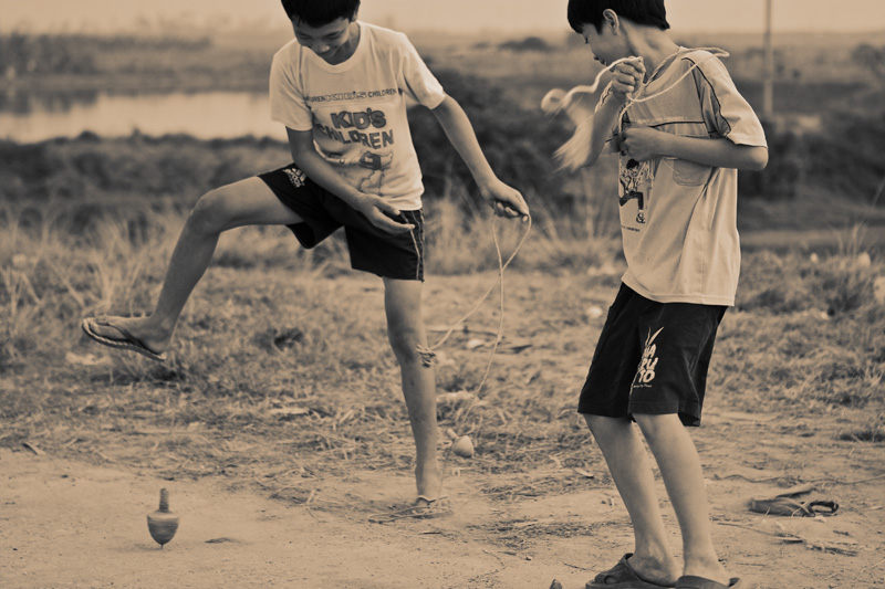 Vietnamese children playing game of spinning tops